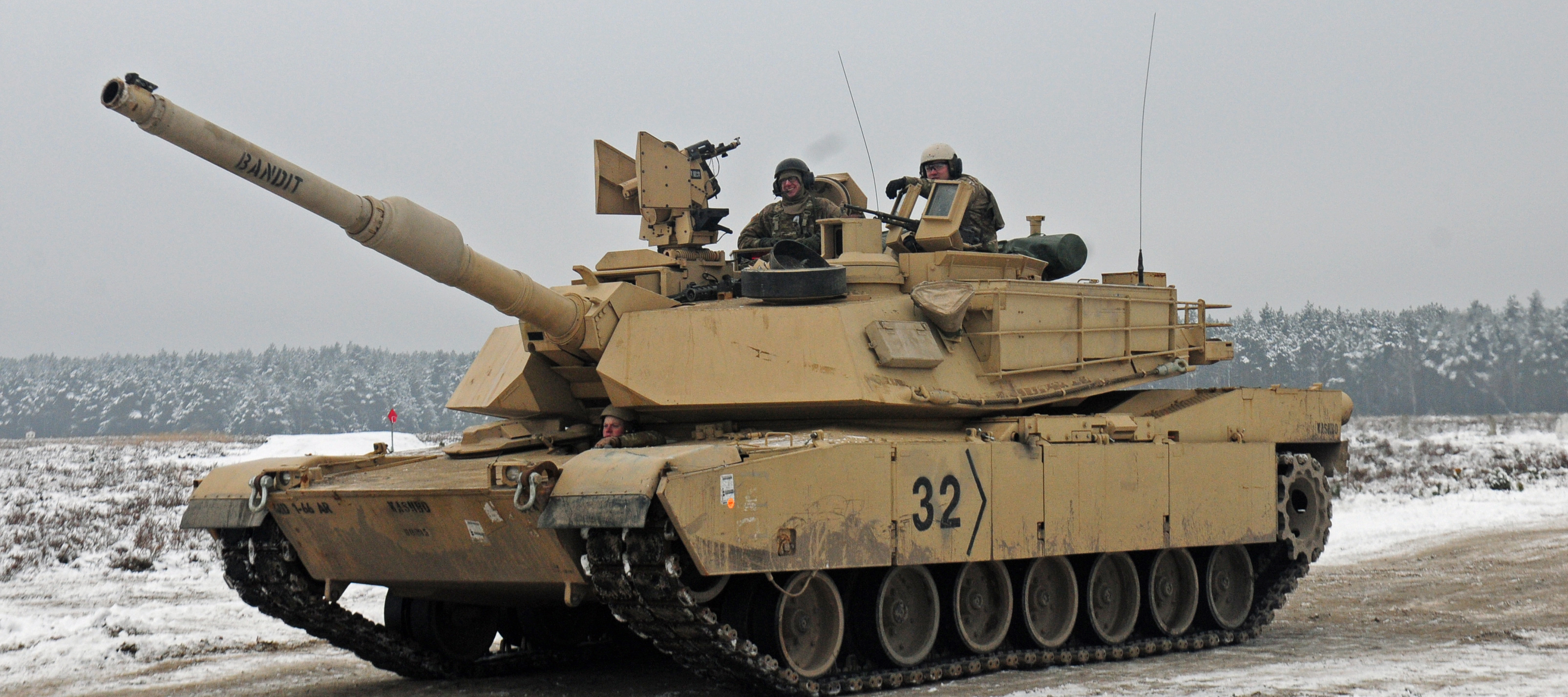 ZAGAN, Poland – A tank crew from 1st Battalion, 66th Armored Regiment, 3rd Armored Brigade Combat Team, 4th Infantry Division, maneuvers their tank into firing position Jan. 19 during a gunnery range. The Soldiers will spend the remainder of the month training and making sure their vehicles are in good-working order before deploying across Europe for use in training with partner nations. This rotation will enhance deterrence capabilities in the region, improve the U.S. ability to respond to potential crises and defend allies and partners in the European community. U.S. forces will focus on strengthening capabilities and sustaining readiness through bilateral and multinational training and exercises.